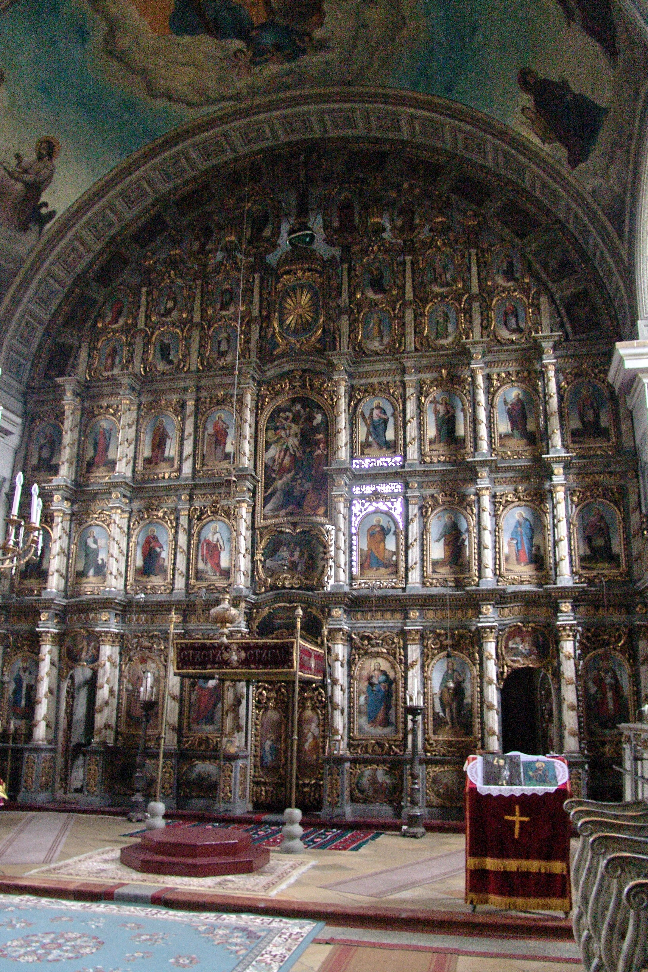 Serbian Orthodox church of Saint John the Baptist in Vranjevo - iconostasis